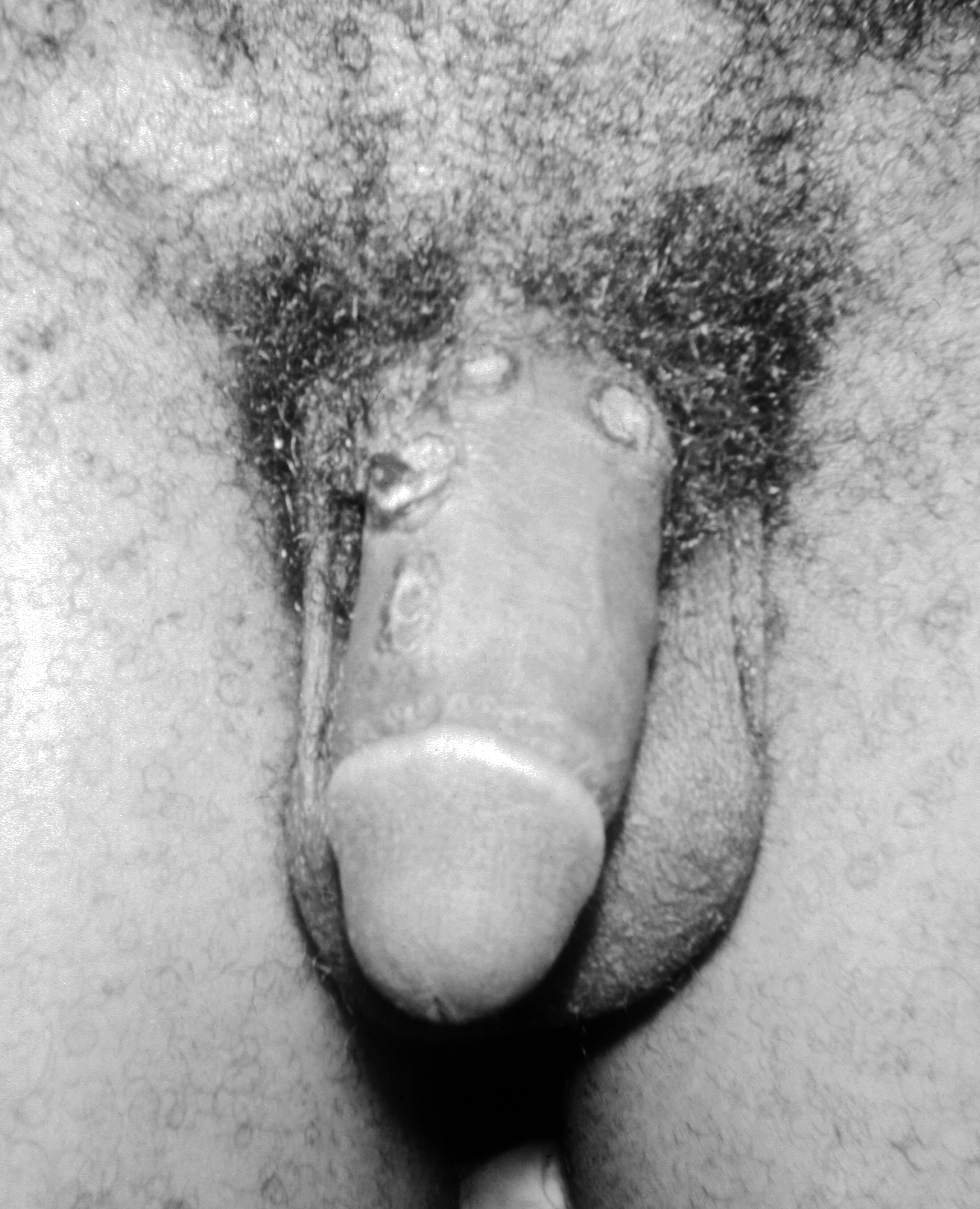 Chancres on the penile shaft due to a primary syphilitic infection caused by Treponema pallidum bacteria. The primary stage of syphilis is usually marked by the appearance of a single sore called a chancre. The chancre is usually firm, round, small, and painless.